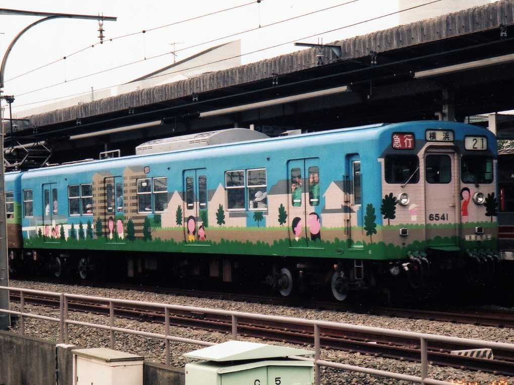 Sagami Railway(Sotetsu), EMU Type 6000 "Ryokuen Toshi Go" At Ebina Sta.